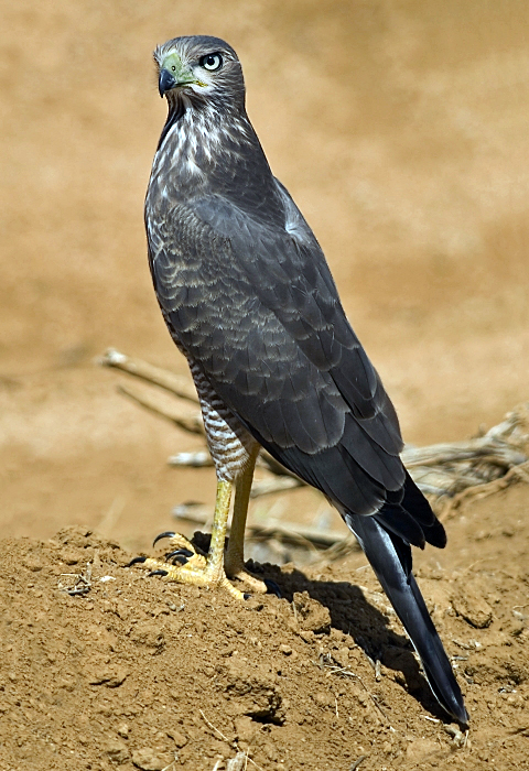 A juvenile Eastern Chanting Goshawk in Amboseli National Park, Kenya.